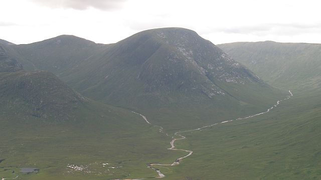 Meall nan Eun Big slabby granite hill in the Blackmount. View from Beinn Suidhe, across Loch Dochard.